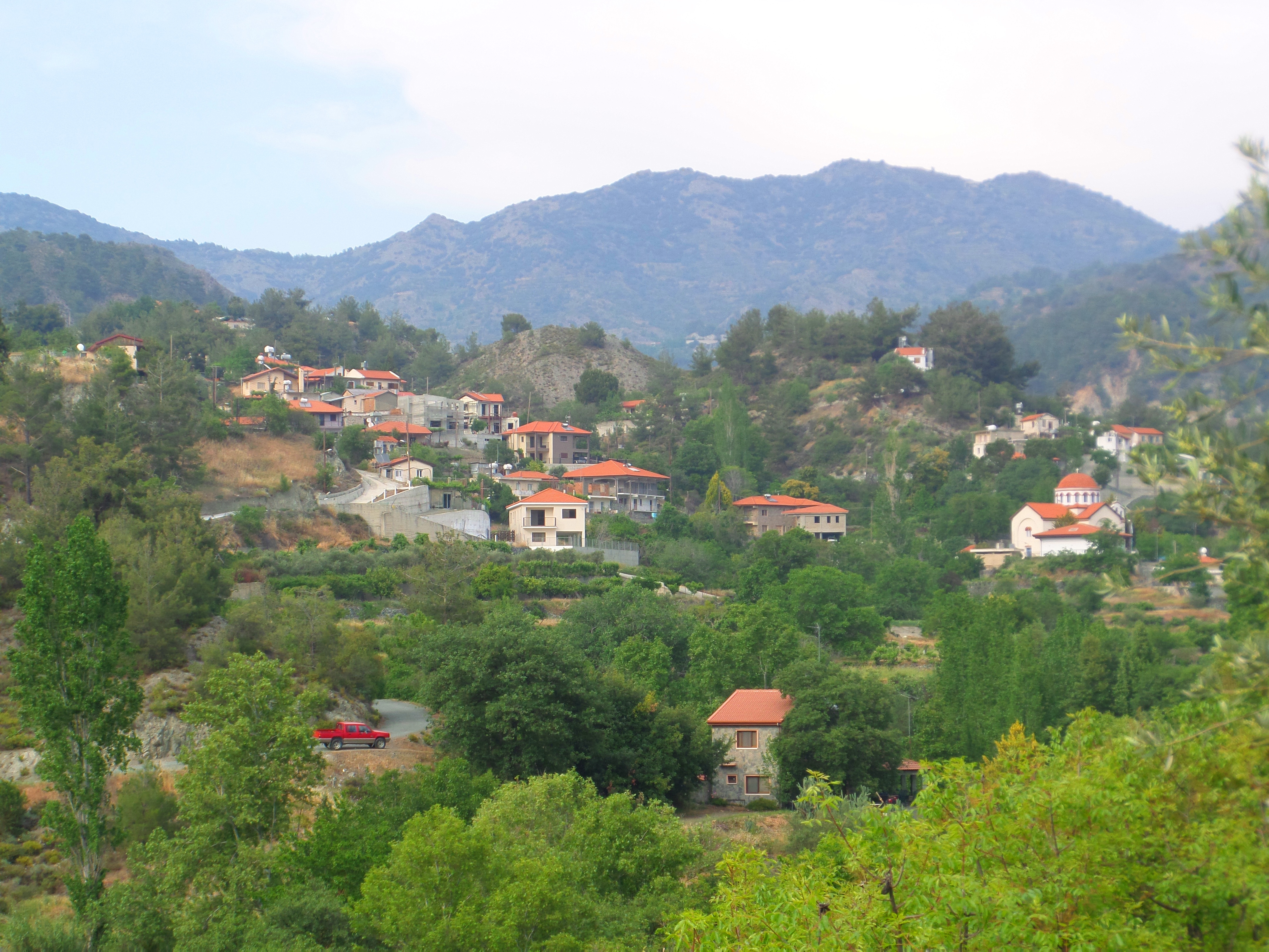 View of Kato Mylos.